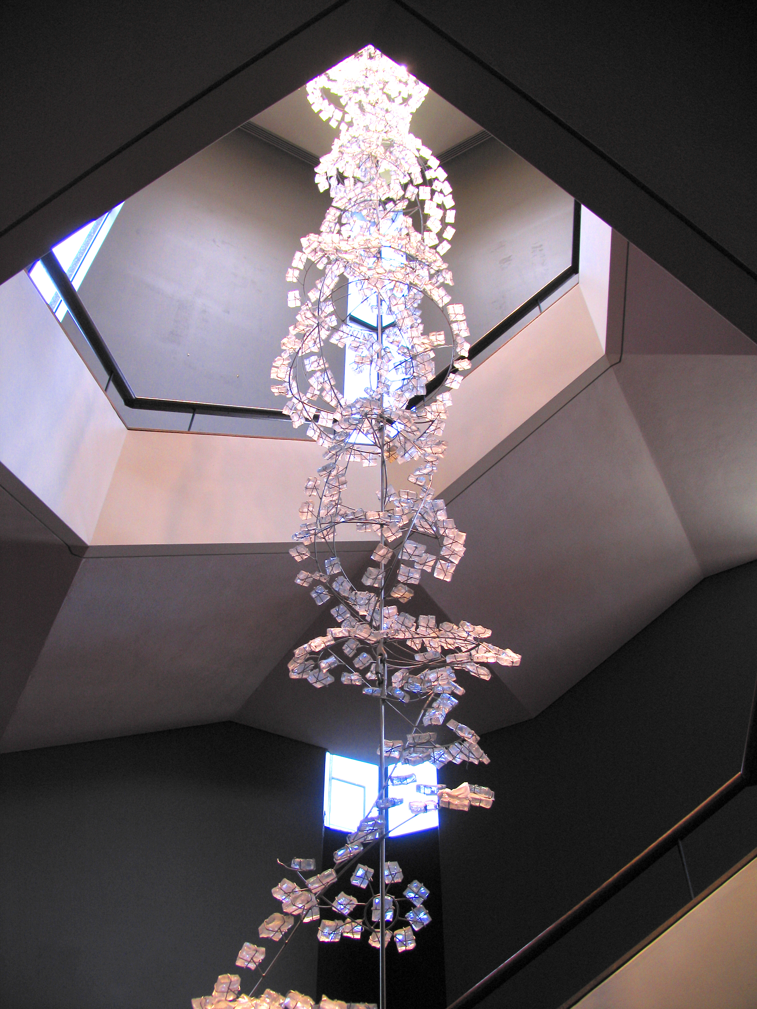 National Arts Center spiral crystal DNA sculpture in spiral stairwell. This photo was used in "Eye on DNA" - Forbes DNA Special Feature.